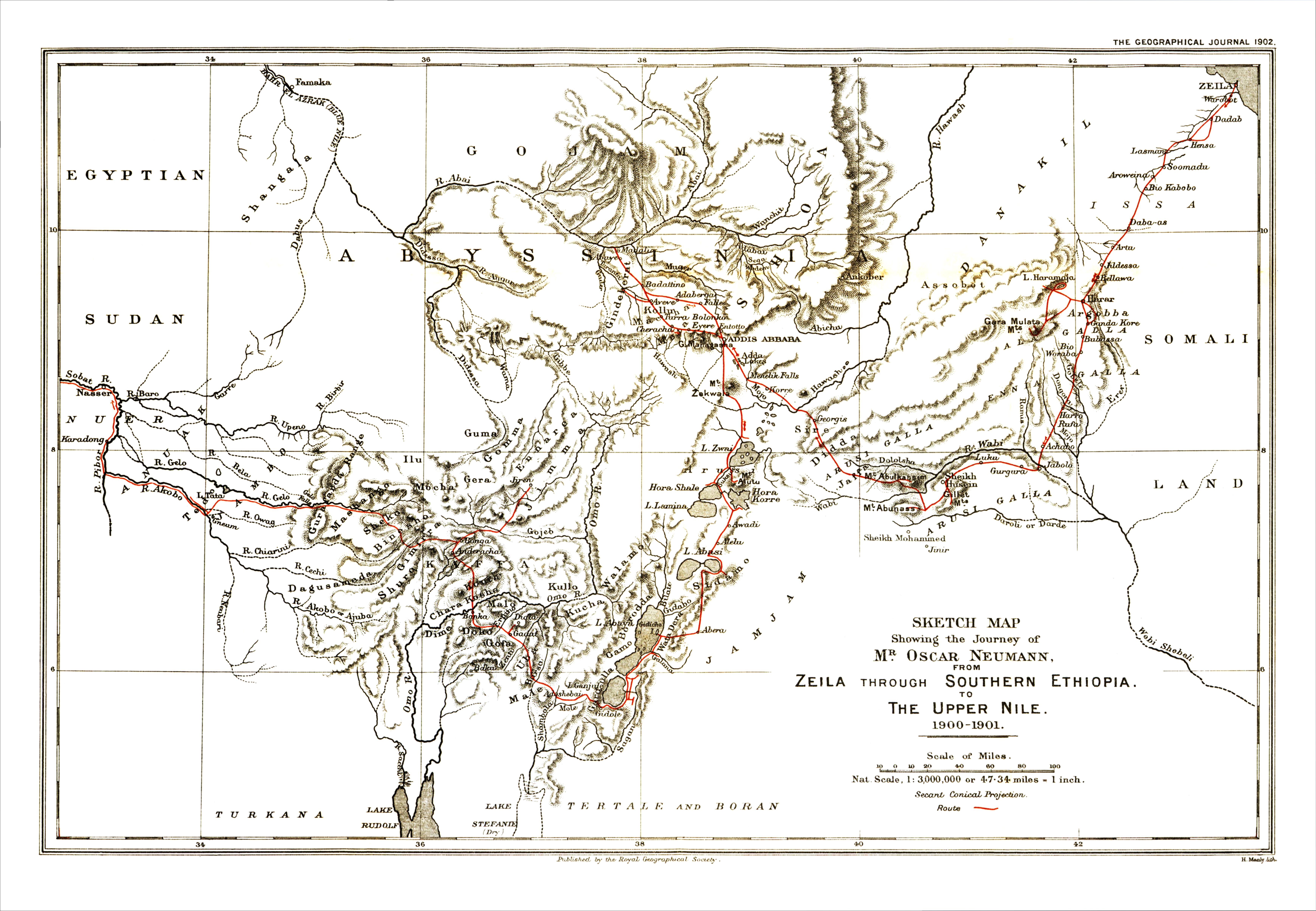 Map of the route of Oscar Neumann